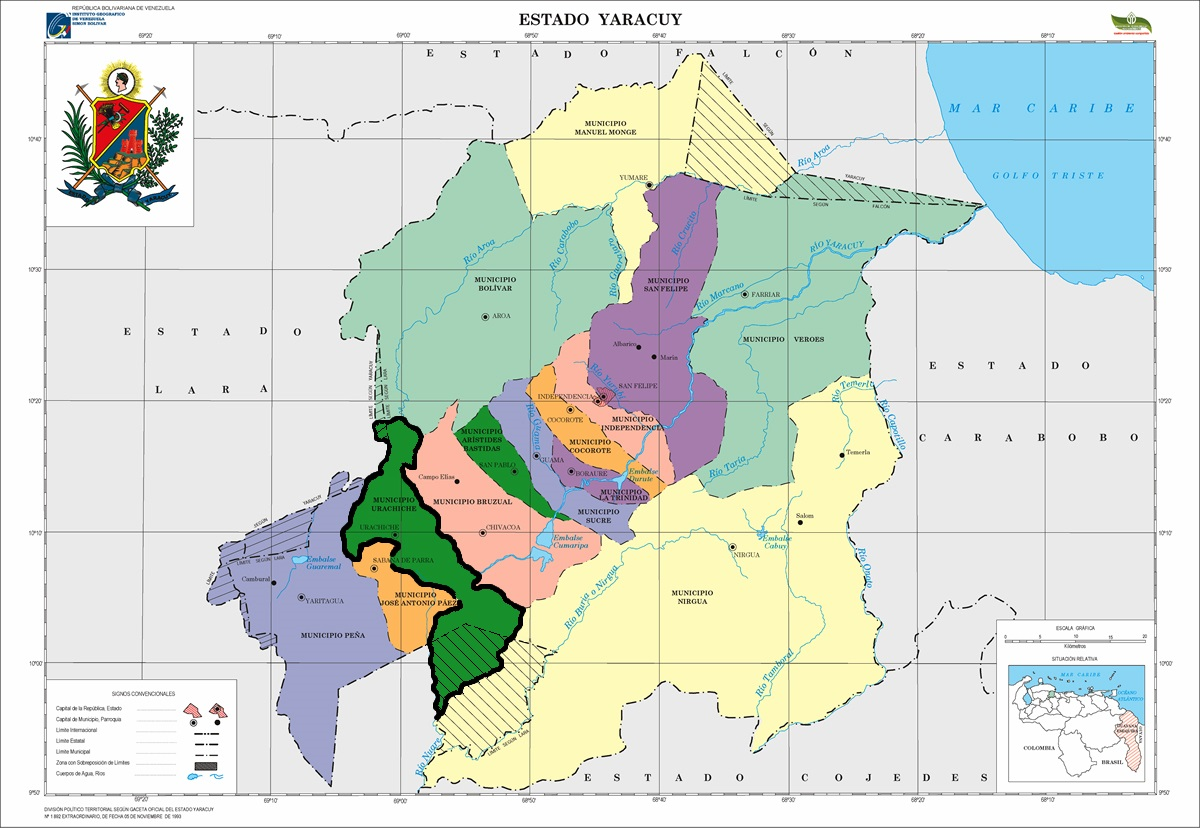 Mapa del estado Yaracuy con la localización de Urachiche